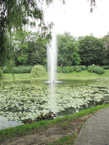 Park Róż in Chorzów Klimzowiec, Poland